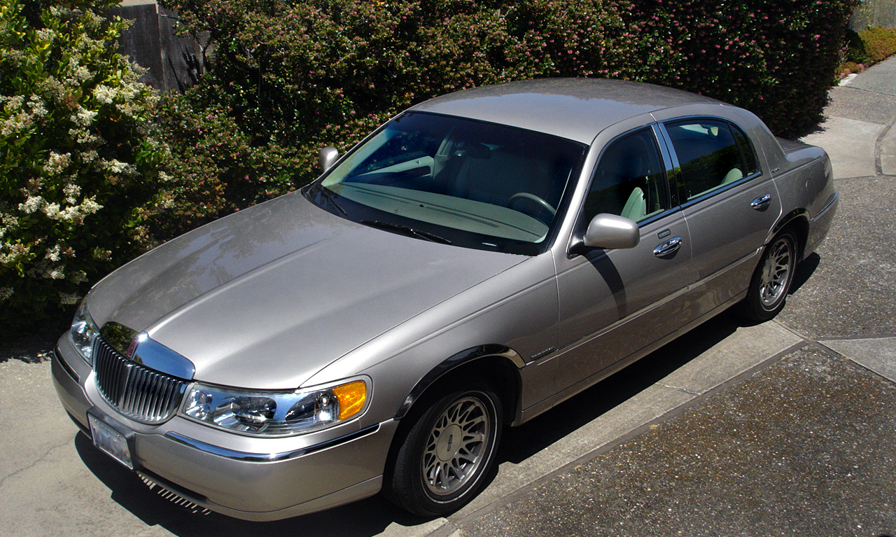 I took this driveway-shot of my car myself. it's greeeeaaattt